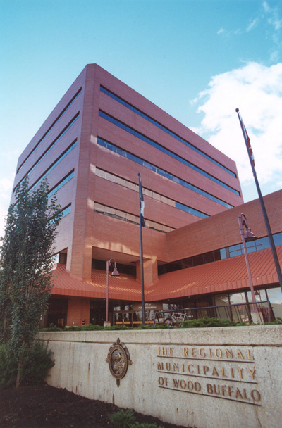 Jubilee Centre, the municipal building (city hall), in Fort McMurray, Alberta.